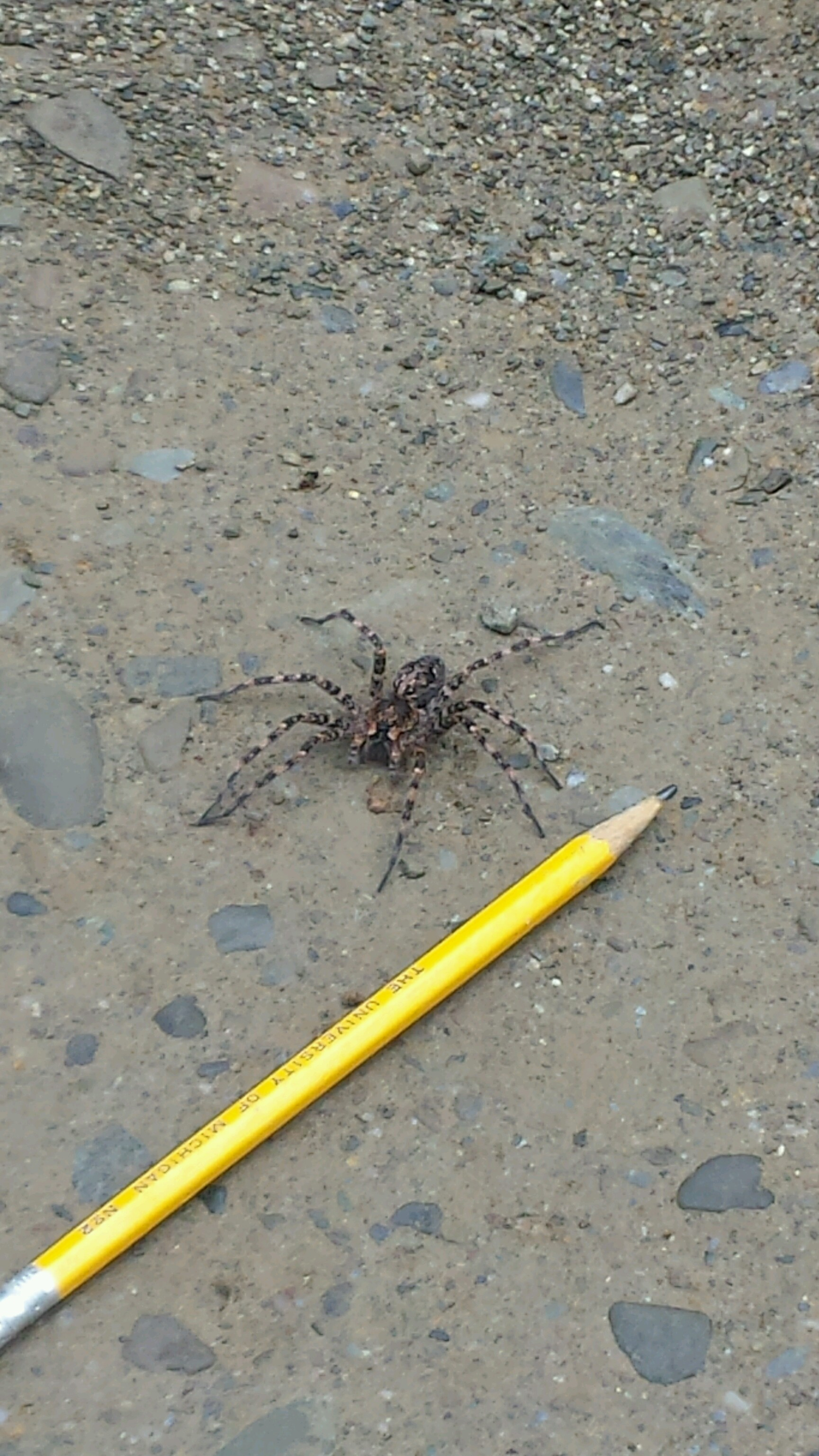 Grim and fearsome foe itself